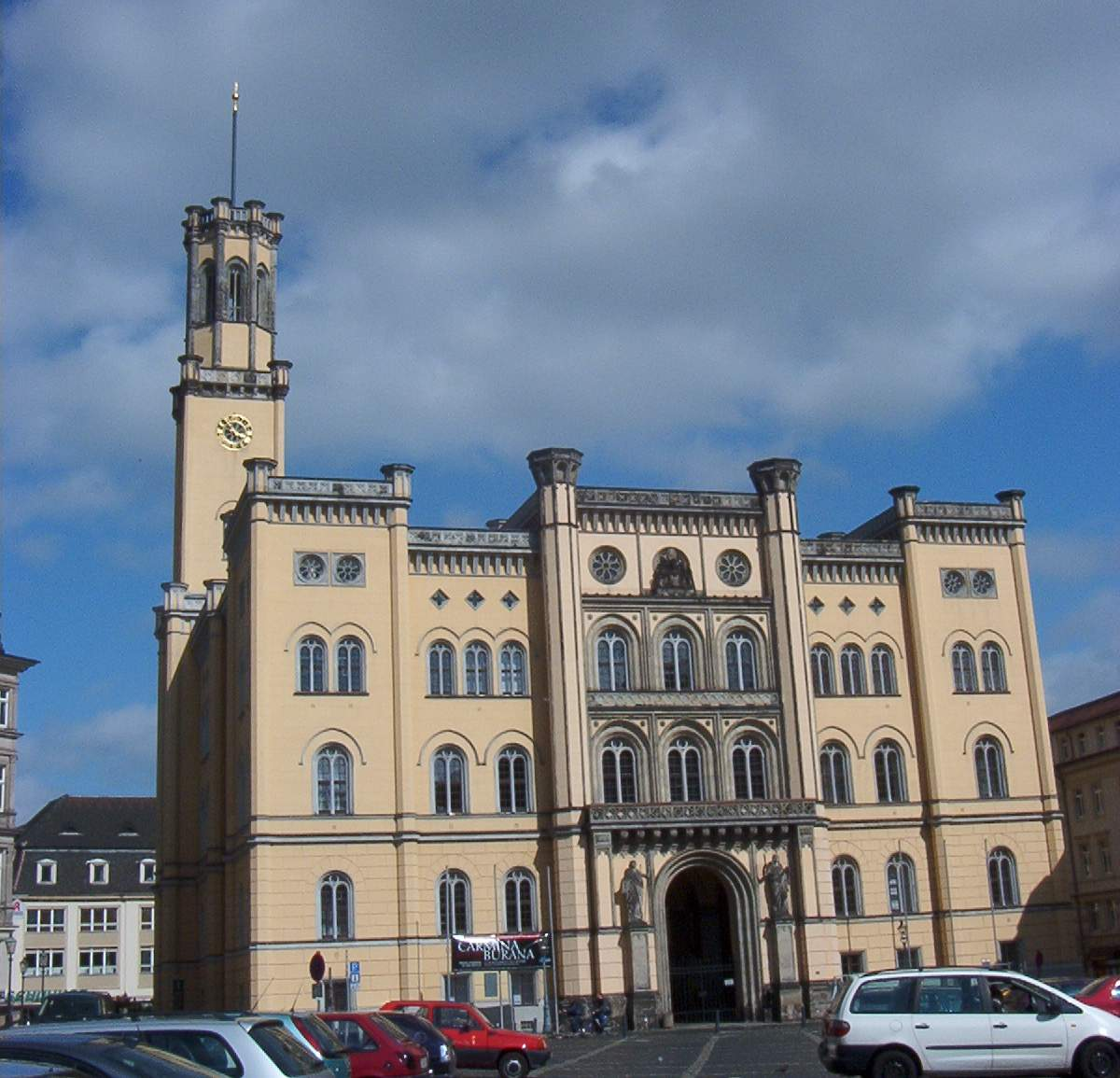 Town hall of Zittau